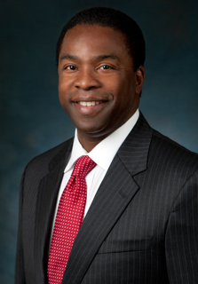 Mayor of Jacksonville Alvin Brown official portrait